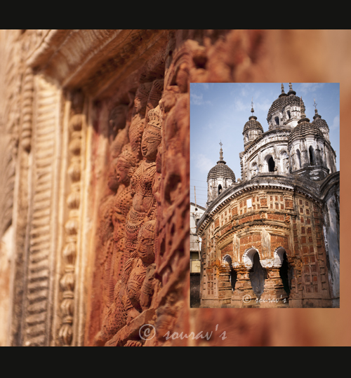 Chandrakona